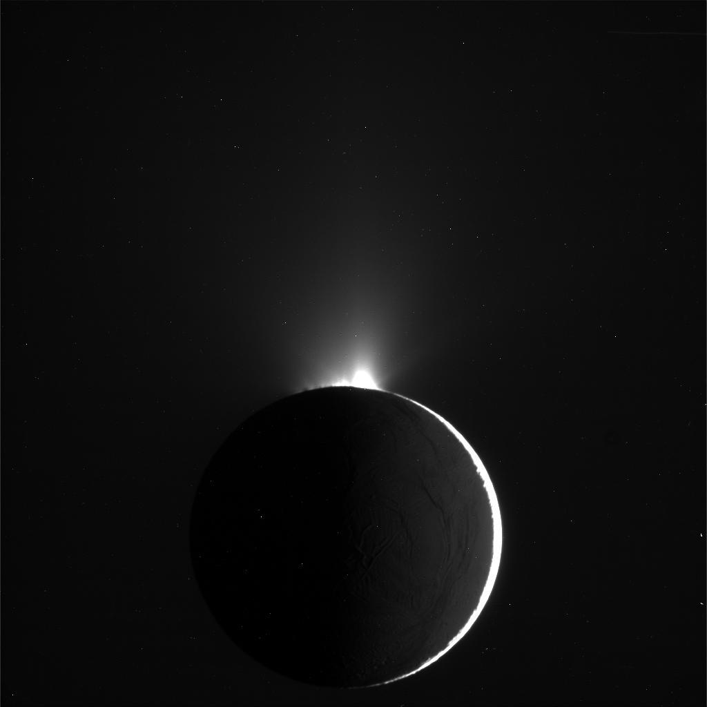 The Cassini spacecraft has weathered the flyby of Saturn’s moon Enceladus in good health and has been sending images and data of the encounter back to Earth. Cassini had approached Enceladus more closely before, but this passage took the spacecraft on its deepest plunge yet through the heart of the plume shooting out from the south polar region. Scientists are eagerly sifting through the results. In this unprocessed image, sunlight brightens a crescent curve along the edge of Saturn's moon Enceladus and highlights its misty plume. The image was captured by Cassini's narrow-angle camera as the spacecraft passed about 190,000 kilometres over the moon. This image has not been validated or calibrated. At its closest point Cassini flew about 100 kilometres above the surface of Enceladus. Since the discovery of the plume in 2005, scientists have been captivated by the enigmatic jets. Previous flybys detected water vapour, sodium and organic molecules, but scientists need to know more about the plume’s composition and density to characterize the source, possibly a liquid ocean under the moon’s icy surface. It would also help them determine whether Enceladus has the conditions necessary for life. Mission managers did extensive studies to make sure the spacecraft could fly safely through the plumes and not use an excessive amount of propellant.